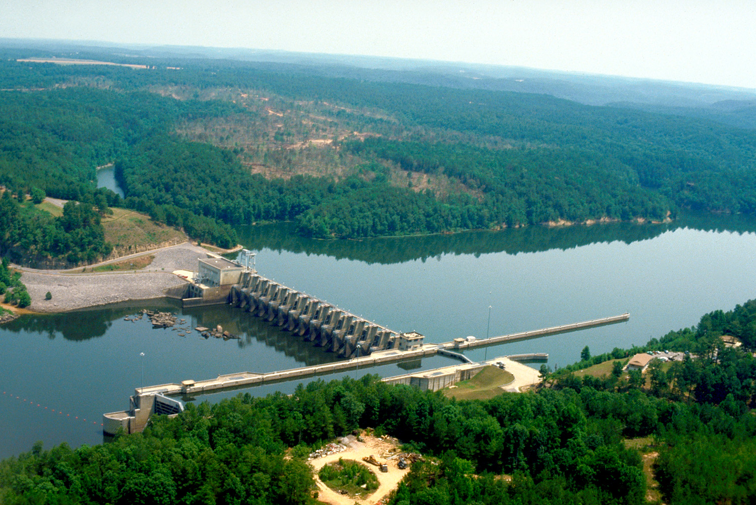 Aerial view of Holt Lock and Dam on the Black Warrior River in Tuscaloosa County, Alabama, USA. The dam impounds Holt Lake, which stretches 18 miles (29 km) upriver to the base of Bankhead Dam and Bankhead Lake. The dam is located at river mile 347 (km 555) on the Black Warrior River, about 7 miles (11 km) east-northeast of the city of Tuscaloosa. View is to the northeast. Lake Holt is upriver to the right of the dam in this photograph. U.S. Army Corps of Engineers Holt Lake website